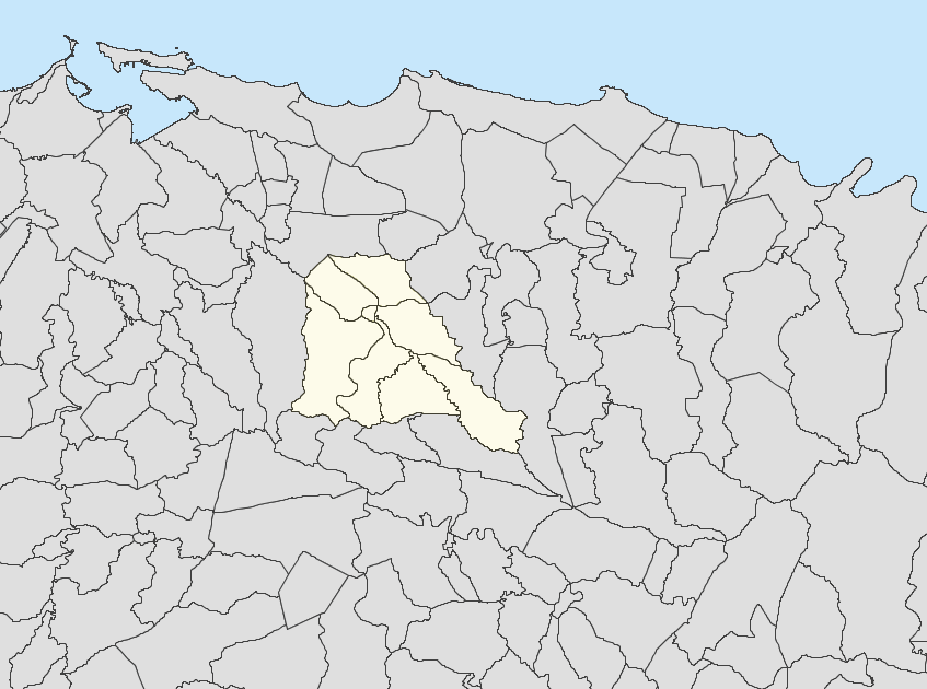 Barrios in the municipality. Map scale is 1:200,000